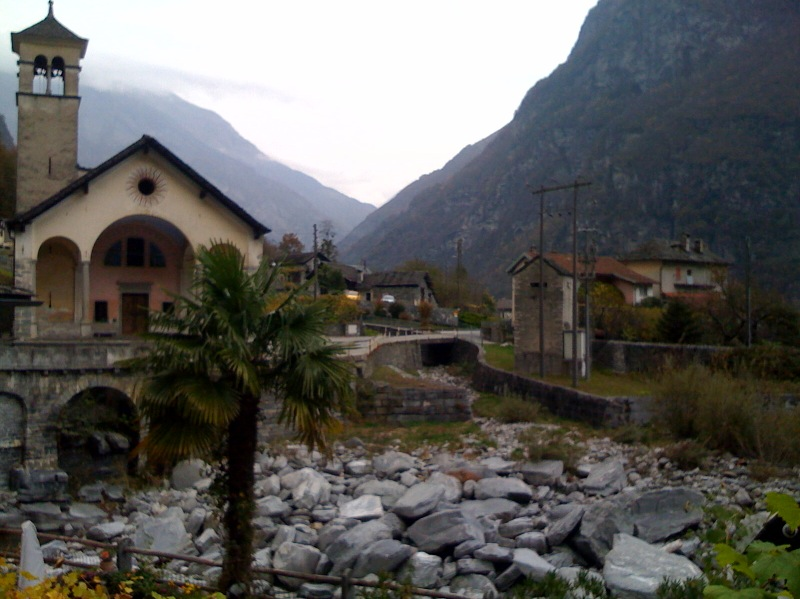 View of Cevio, Ticino, Switzerland